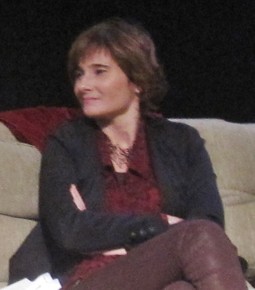 Eliane Brum at Faculdade Cásper Líbero in May 2014.